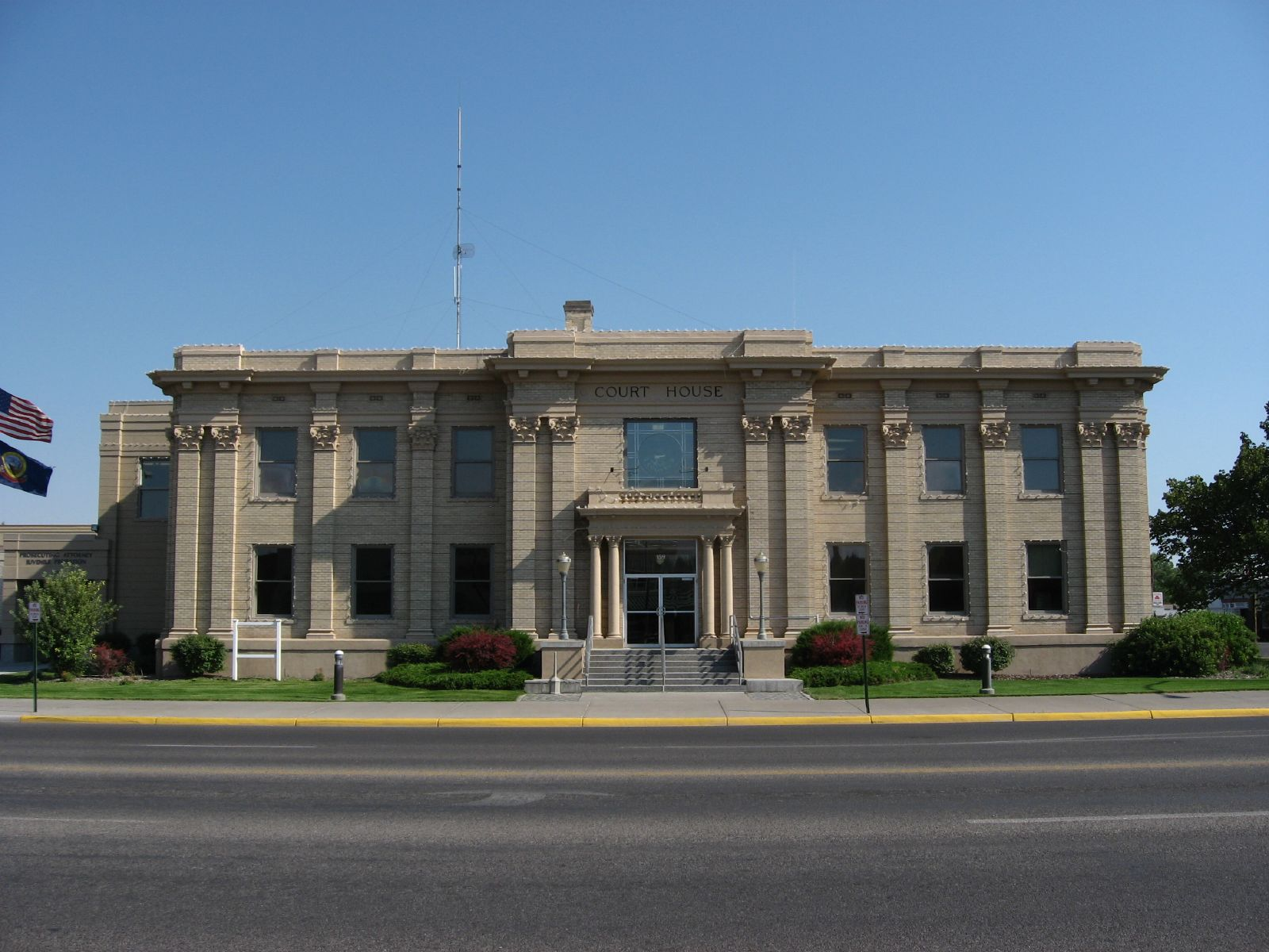 The Madison County Courthouse — in downtown Rexburg, Madison County, Idaho.